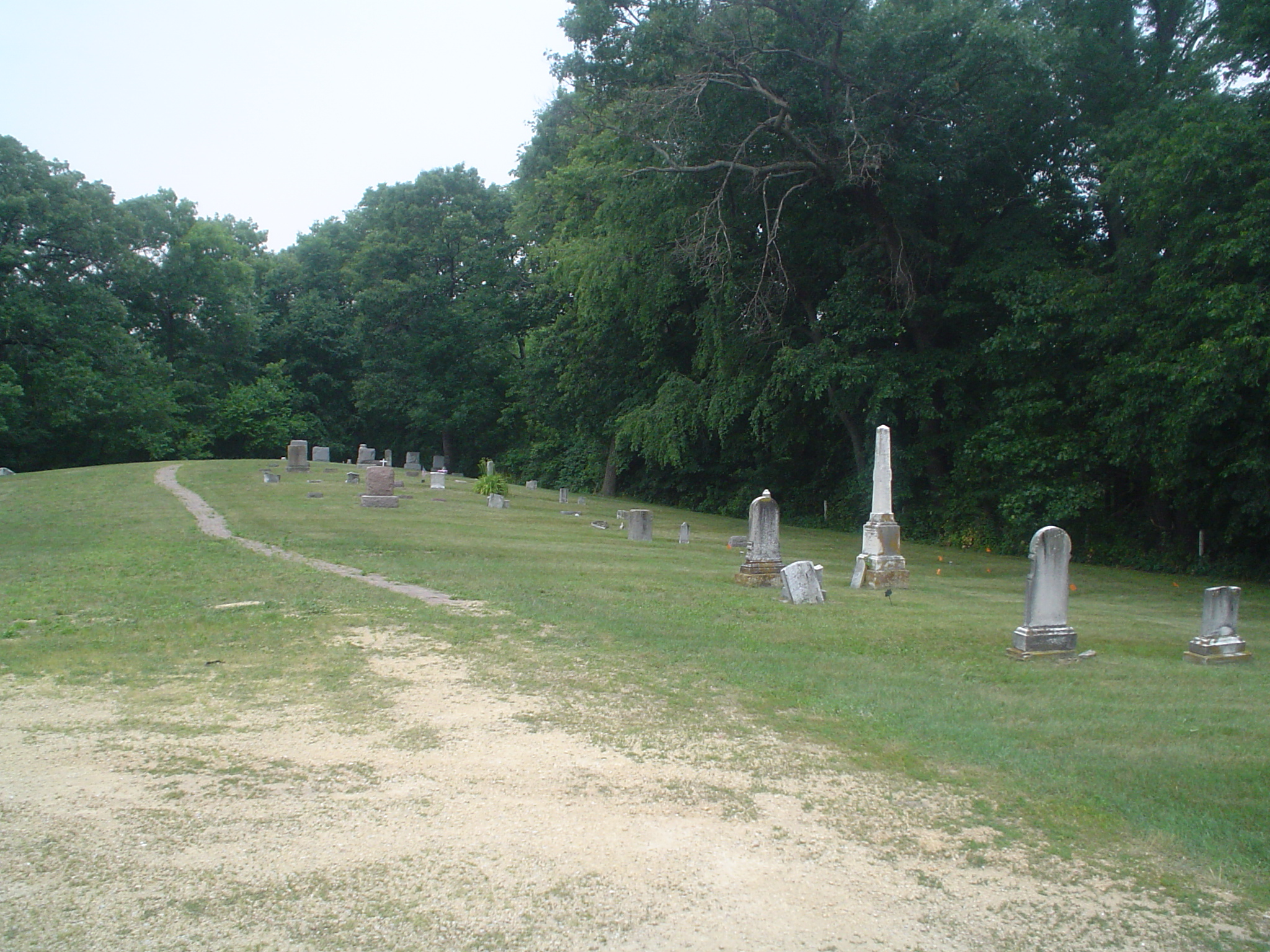 Picture of the Mouth of Stillman Cemetery in Marion Township, Ogle County, Illinois.